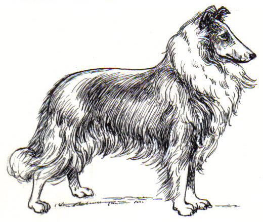 Line art drawing of a collie.